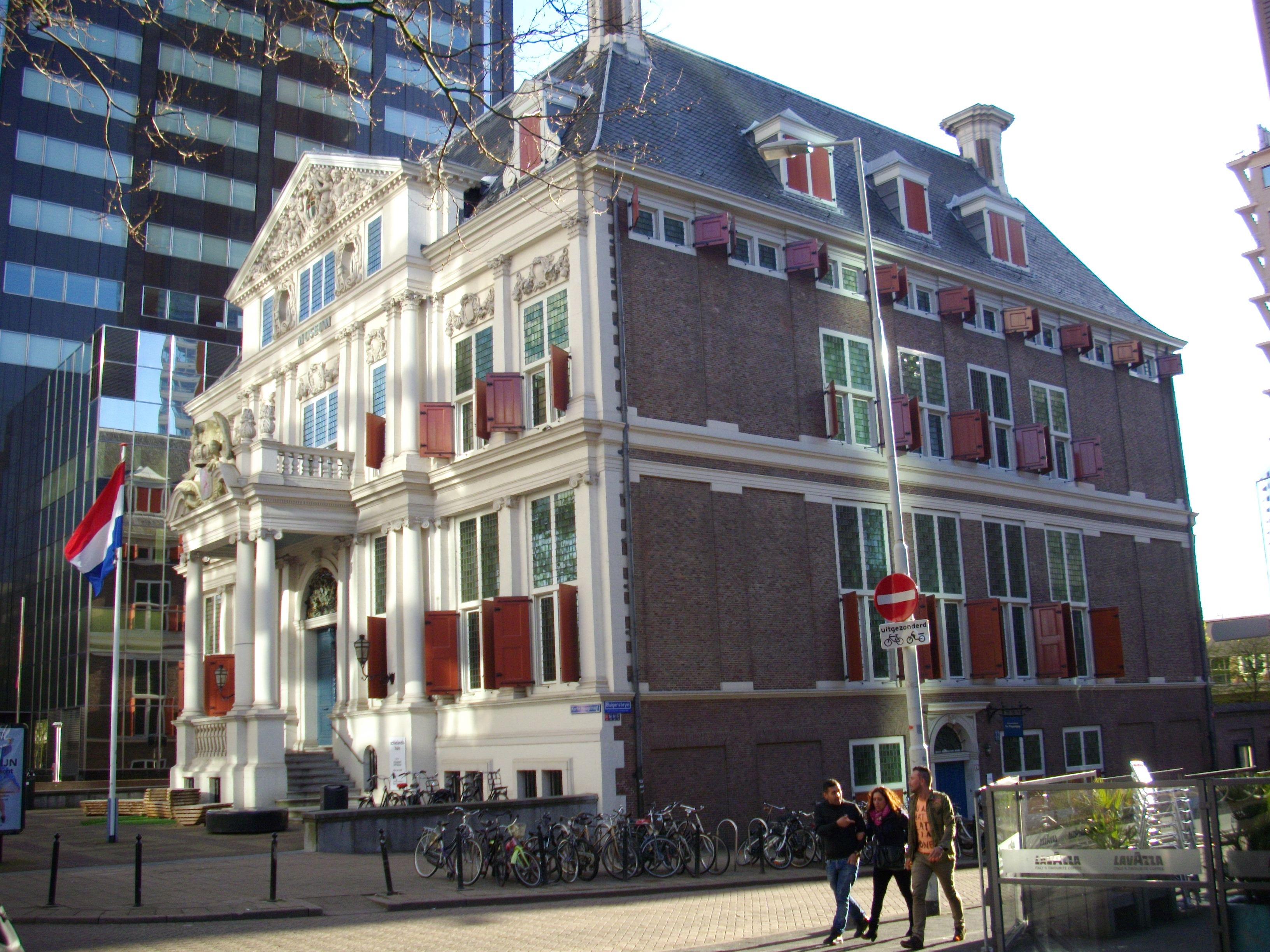 Rotterdam Archaeological Museum